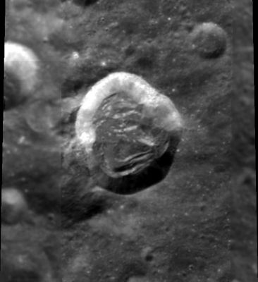 Clementine. Segers is the crater half shown at upper left, Segers H is the larger crater in the center of view.